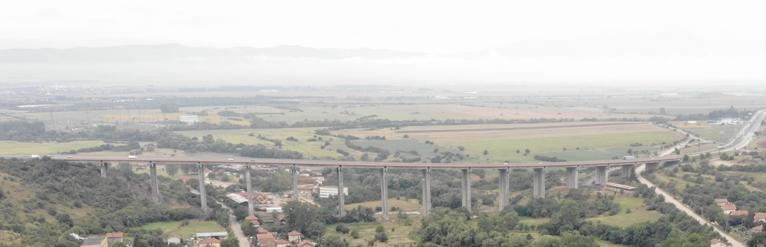 Viaduct over Eleshnica village on Hemus motorway